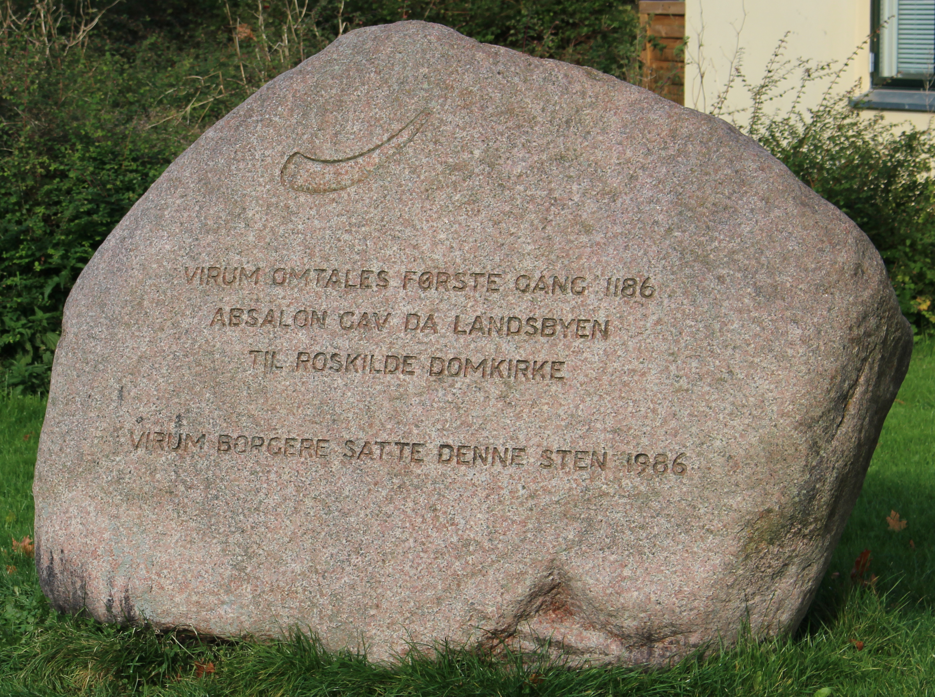 Stone commemorating the first time the Danish village Virum is mentioned.